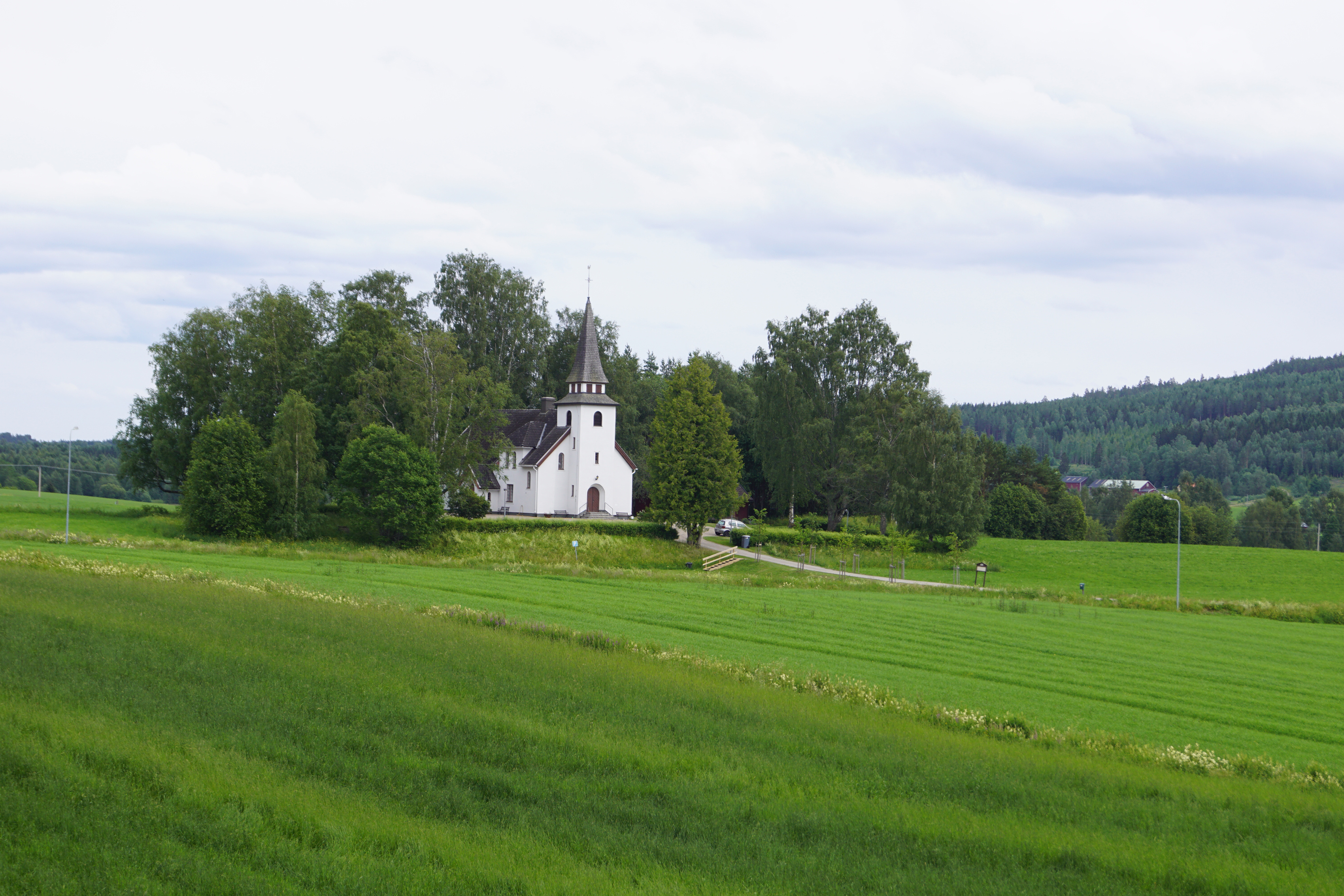 The Chapel of Växbo in Bollnäs socken.